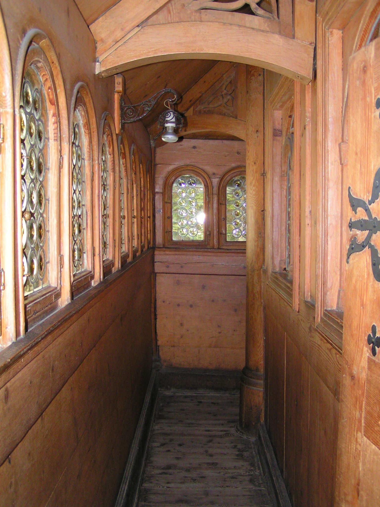 Church Wang in Karpacz, Poland